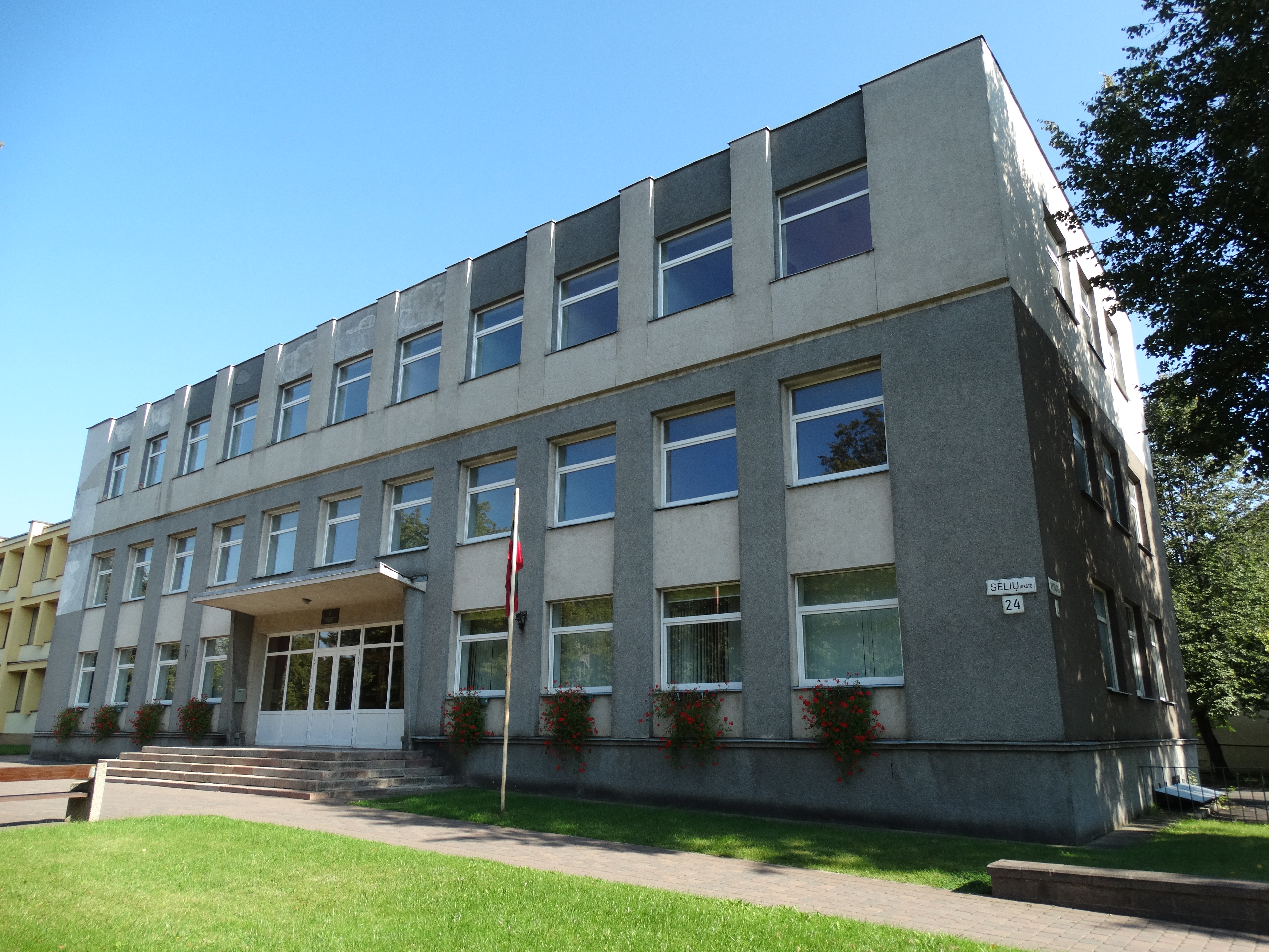 Court, Zarasai, Lithuania